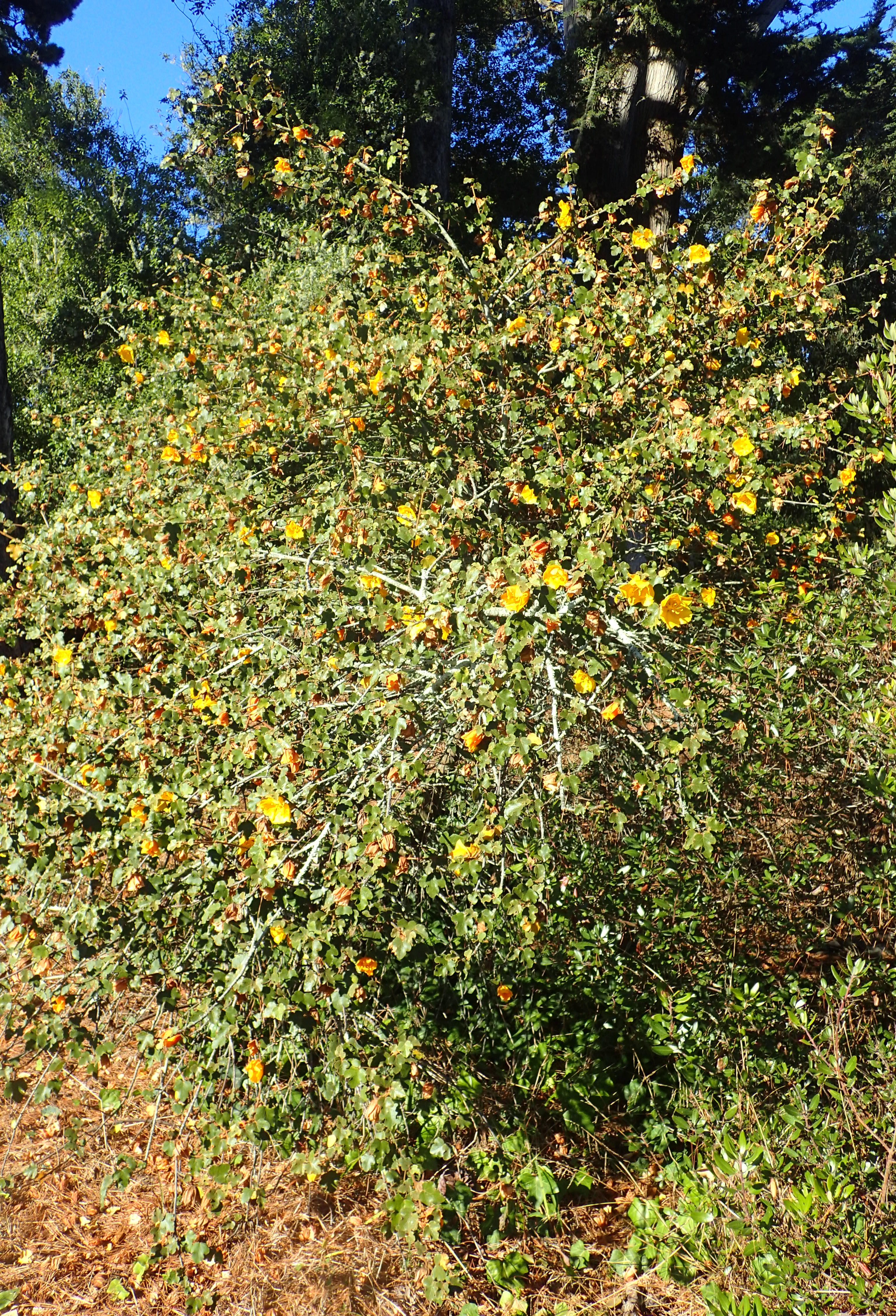 Fremontodendron californicum in the San Francisco Botanical Garden